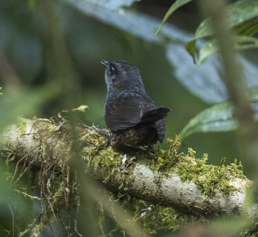 Silvery-fronted Tapaculo - Central Highlands - Costa Rica